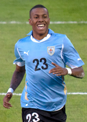 Luis Suárez and Abel Hernández from Uruguay celebrate a goal against the Netherlands during a friendly game in the Estadio Centenario of Montevideo.